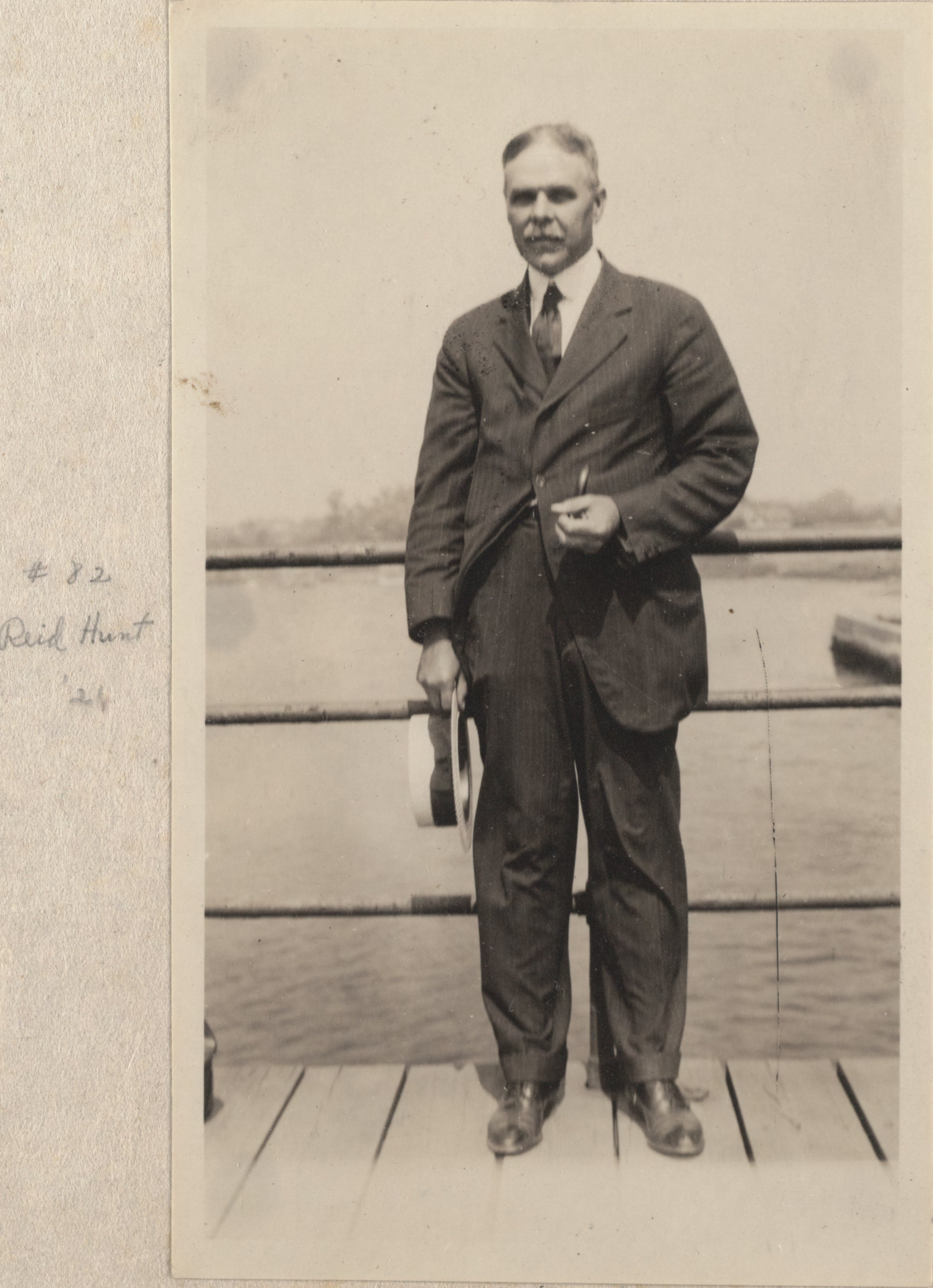 Marine Biological Laboratory Archives Hunt, Reid, 1870-1948